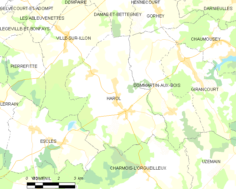 Map of French municipality Harol